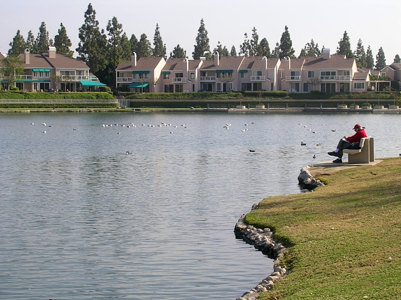 Along the southwestern shoreline of North (Woodbridge) Lake in the Irvine, California village of Woodbridge. View looking southeast. The photograph was taken with a Nikon Coolpix e3200 digital camera